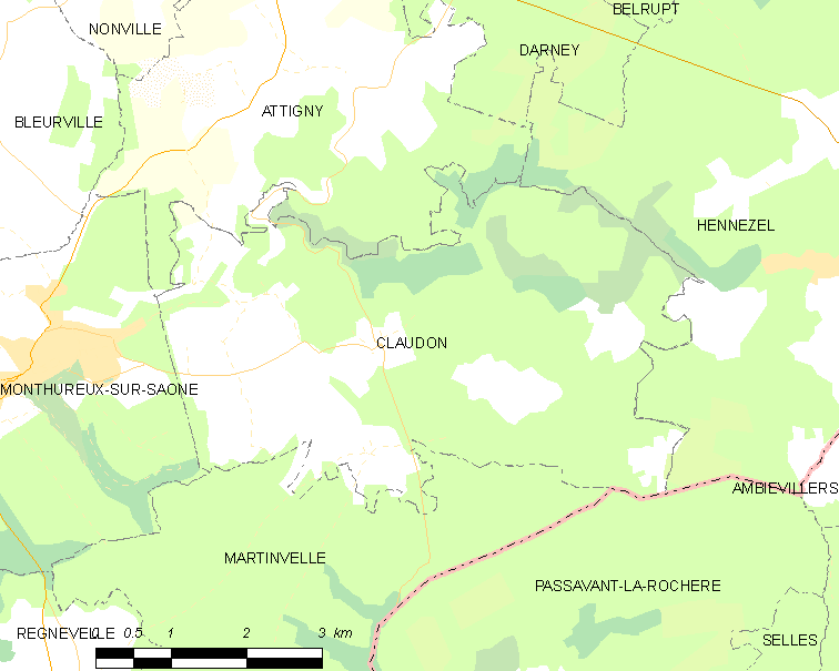 Map of French municipality Claudon